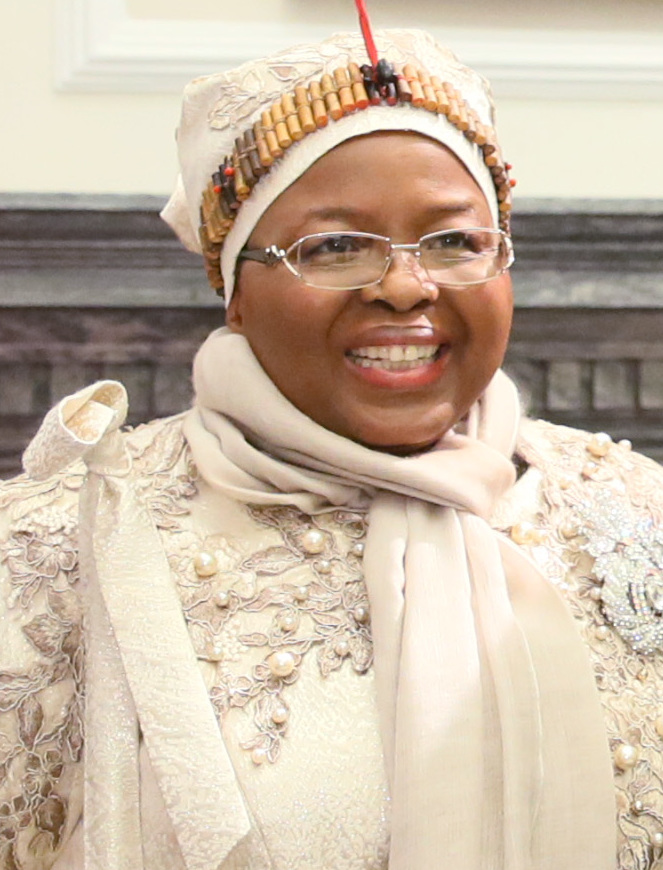 President Tsai meets with a delegation led by Her Majesty Queen Mother Ntombi Tfwala of the Kingdom of Swaziland. (2016/06/07)